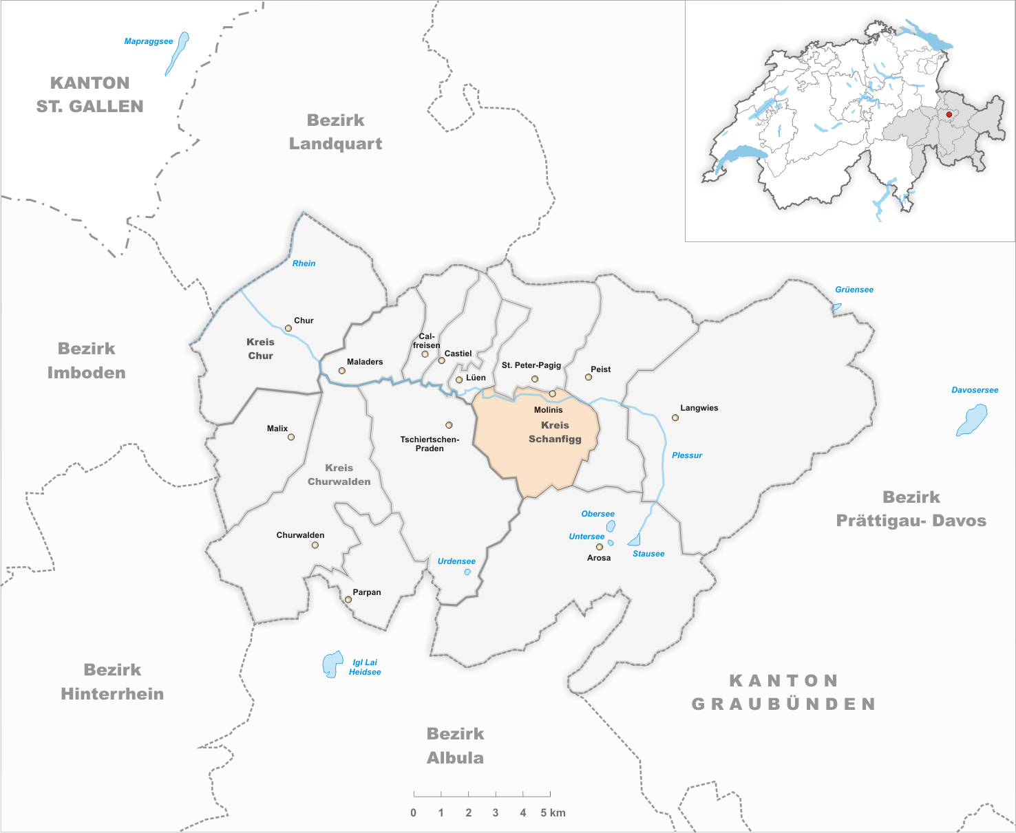 Municipality Molinis